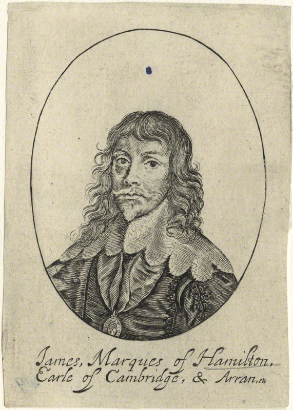 Line engraving of James Hamilton, 1st Duke of Hamilton possibly by William Faithorne, after Sir Anthony van Dyck